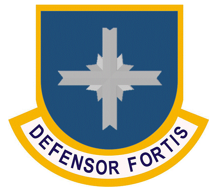 1ABG Security Forces Flash